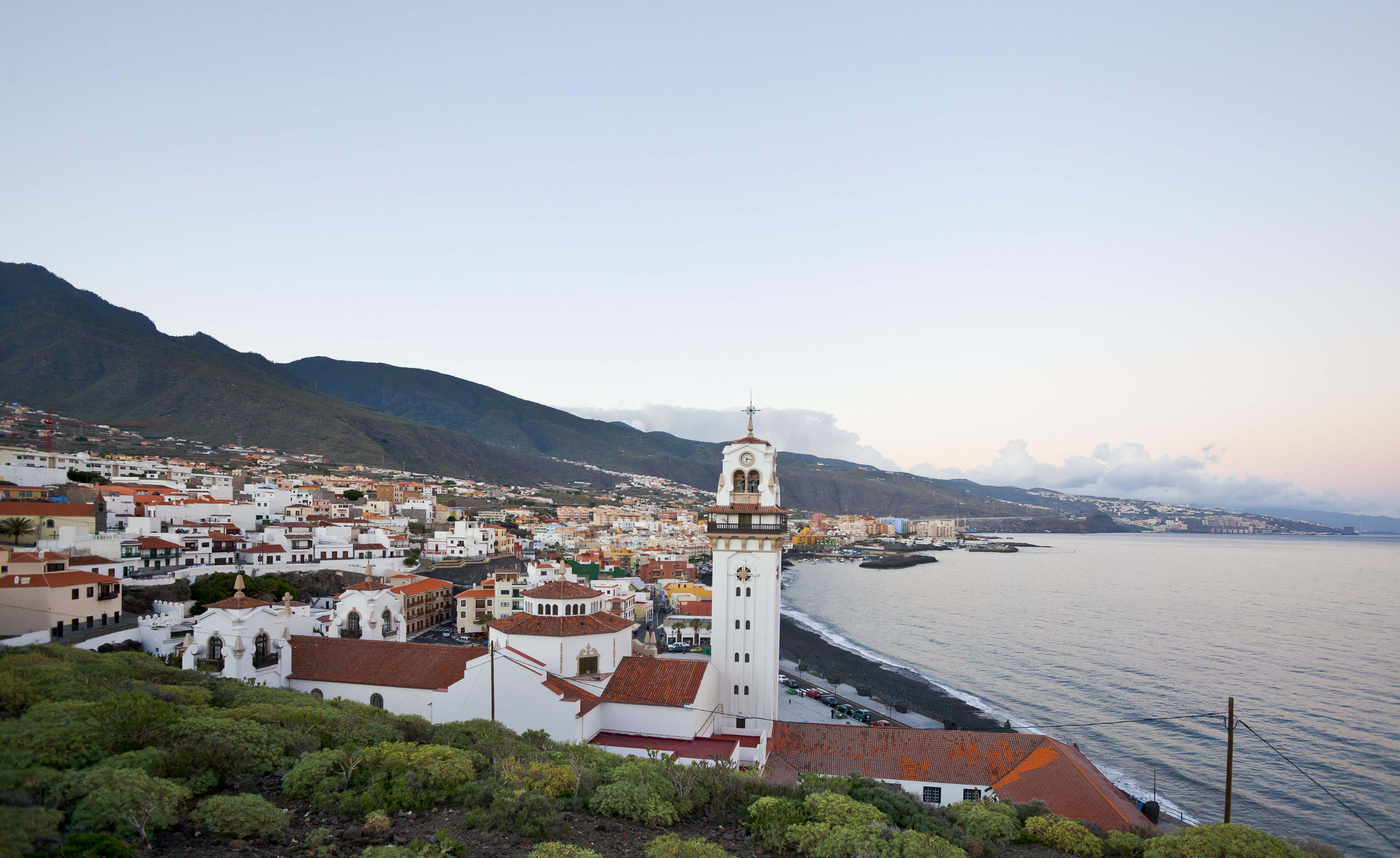 View of Candelaria, Tenerife, Spain